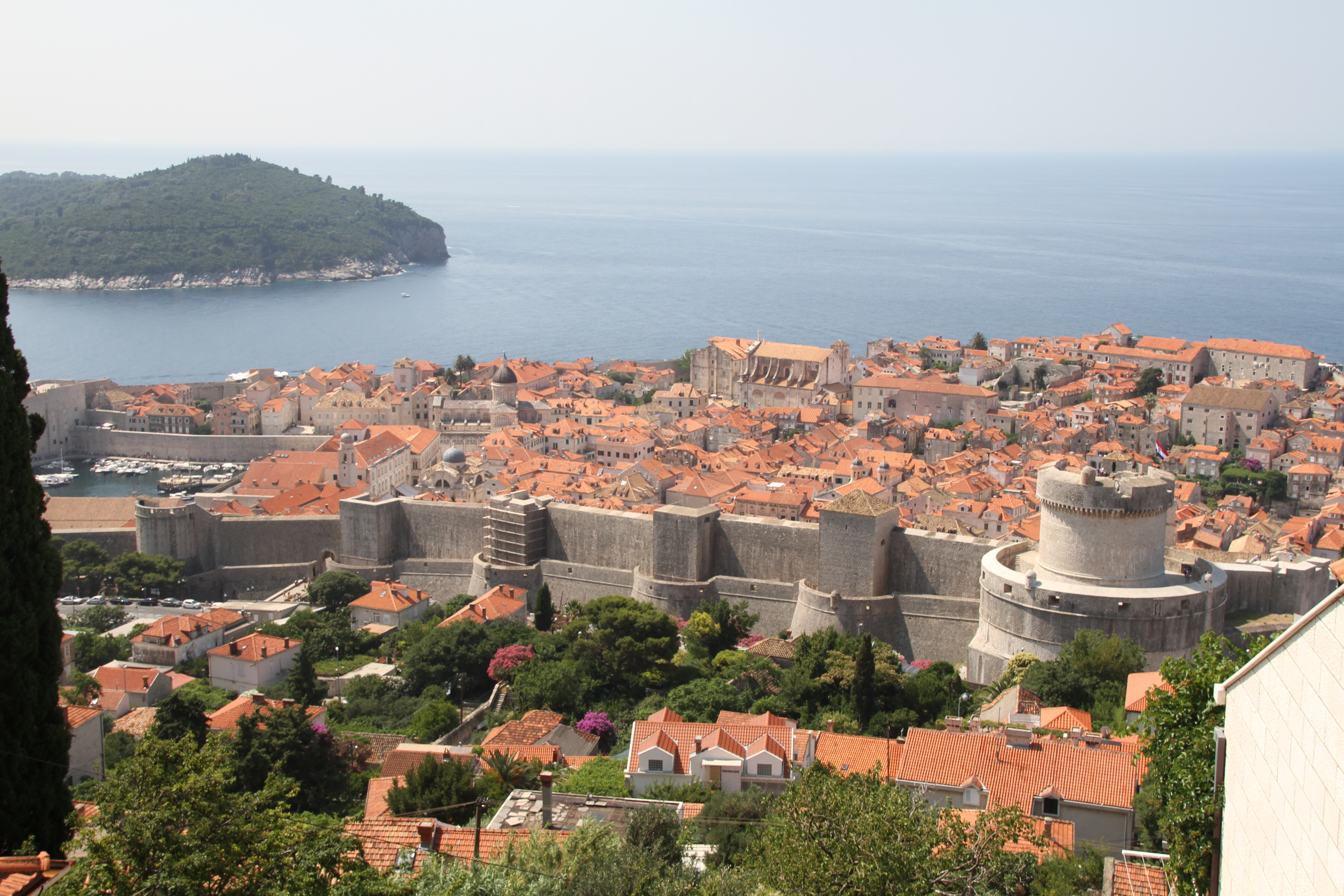 Old town of Dubrovnik, at the adriatic coast of southeastern Croatia.